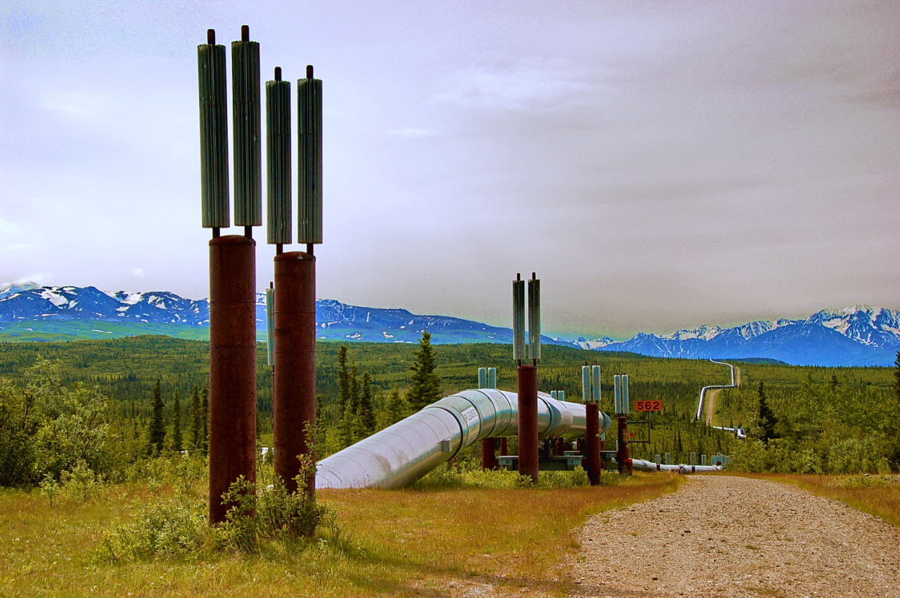 Trans-Alaska Pipeline at Delta Junction